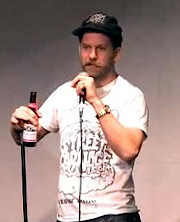 Gavin McInnes at Super Deluxe's Make Funny Not War event at SXSW 2008.